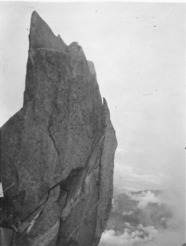 Kinner Kailash in 1980